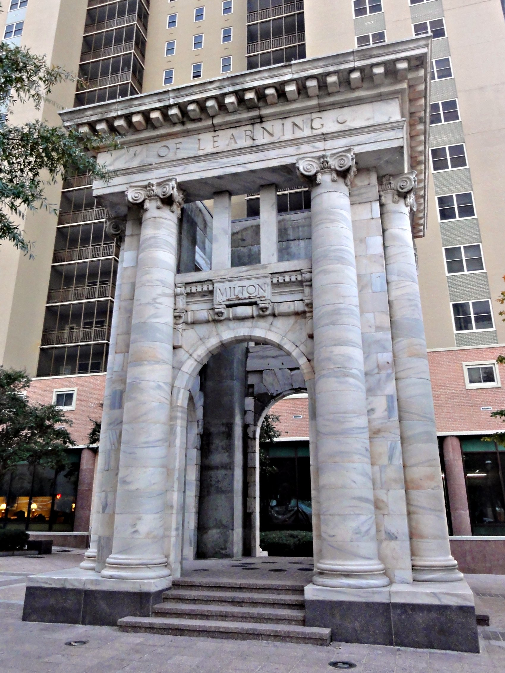 Carnegie Monument, an arch in Atlanta